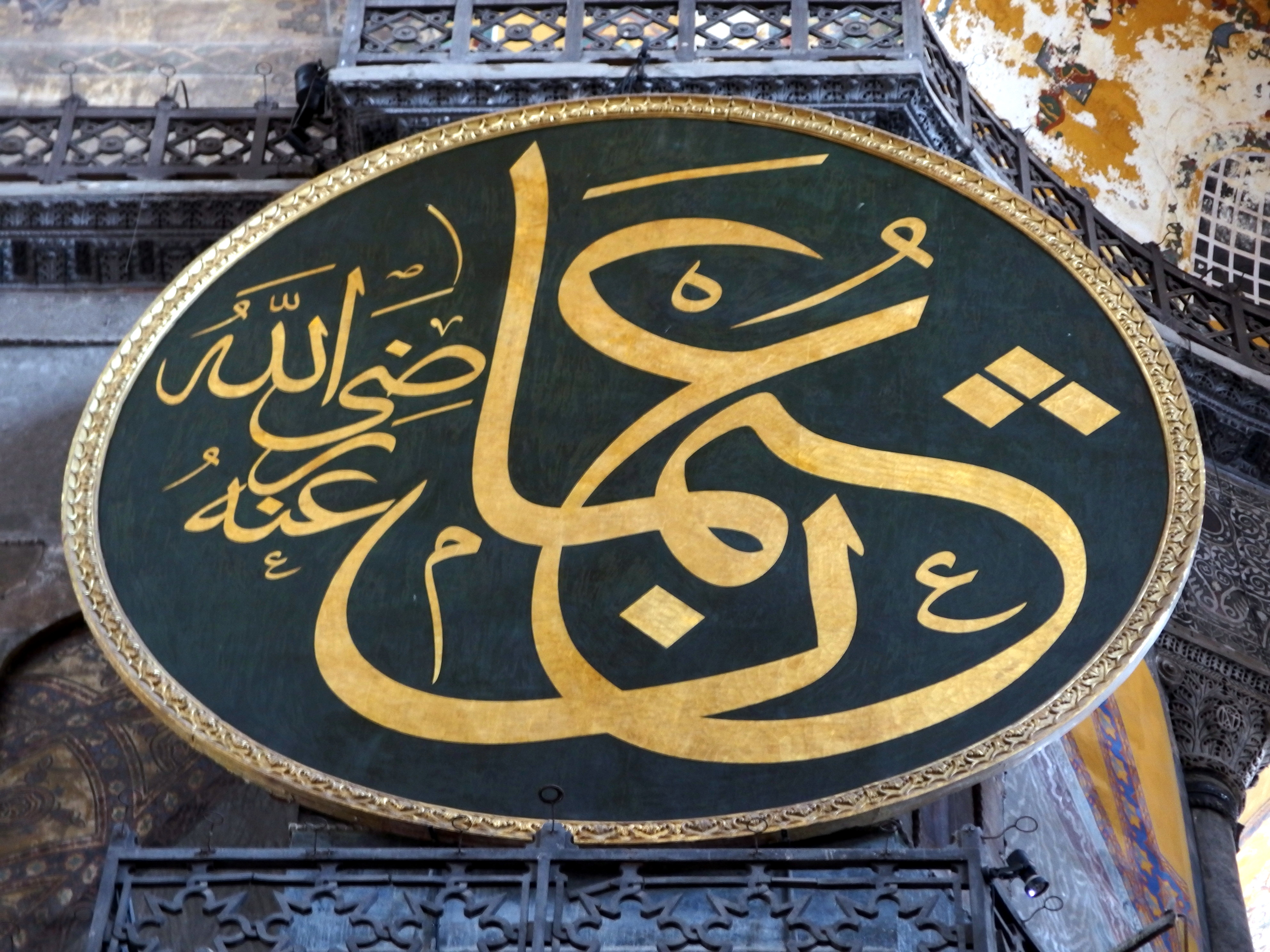 2013-12-03 in Istanbul.